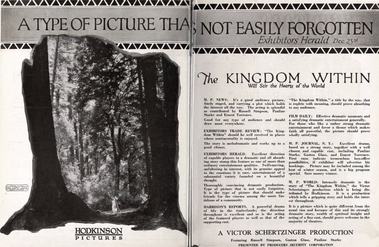 Advertisement for the American drama film The Kingdom Within (1922), on pages 12 and 13 of the January 13, 1923 Exhibitors Trade Review.